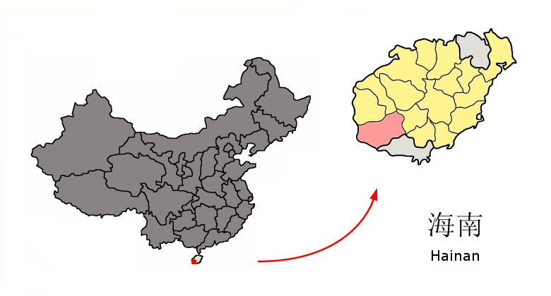 Location of Ledong County (pink) and the subdivisions directly administered by the province (yellow) within Hainan province of China Map drawn in september 2007 using various sources, mainly : Hainan Counties map from